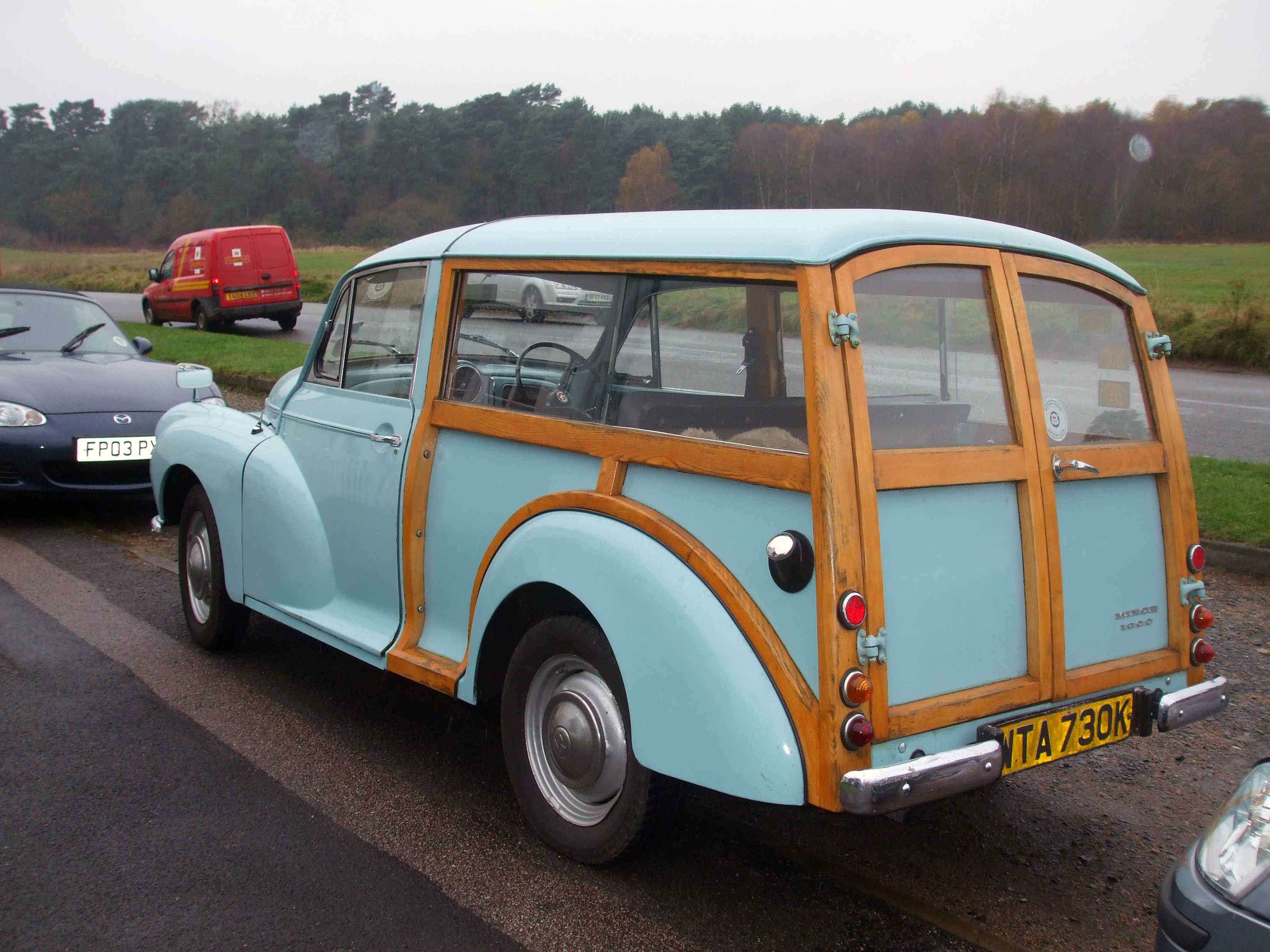 Flanchford Road,Reigate,Nov 2007... my mail van in the background :-)